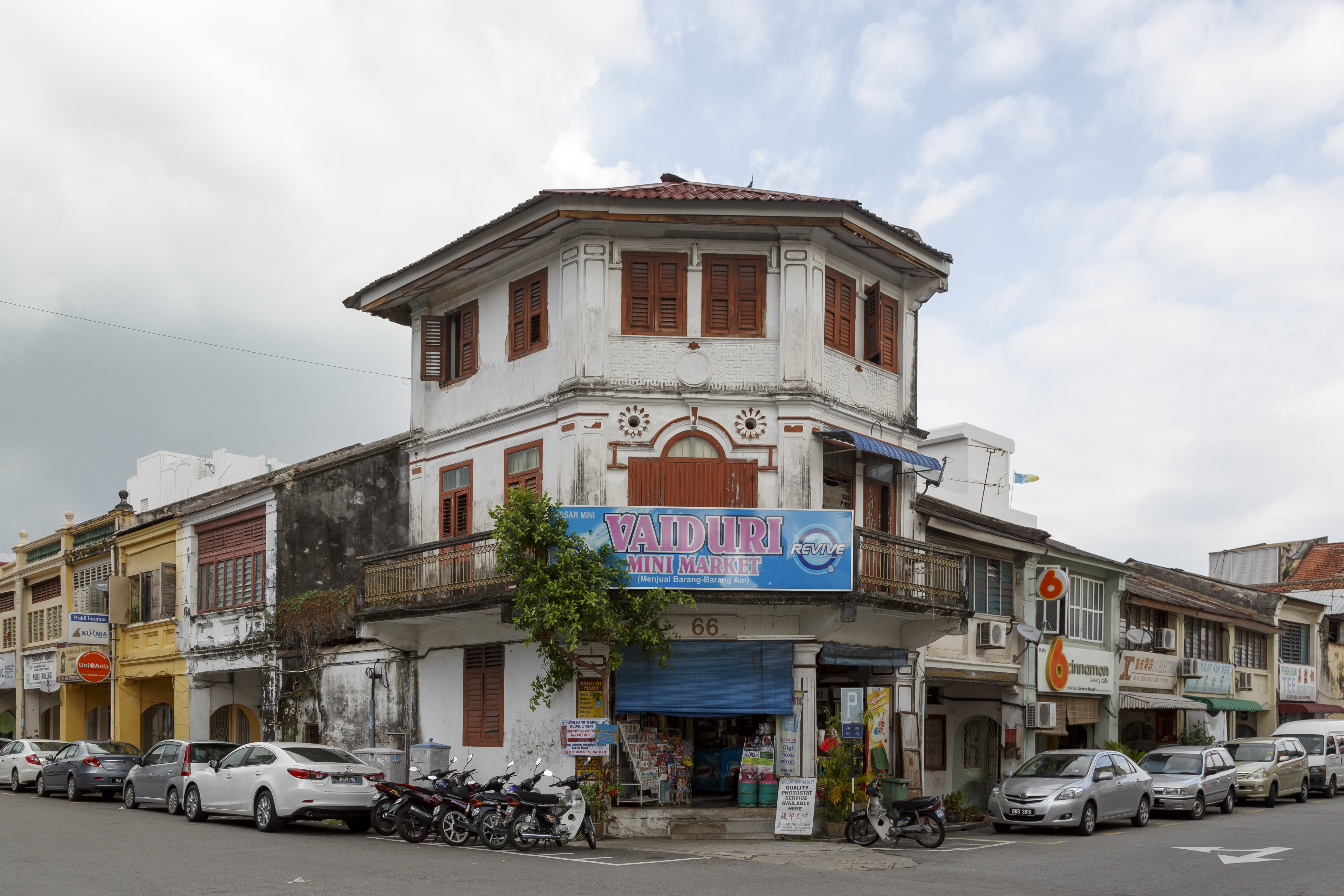 Penang, Malaysia: Mini Market at the corner Lebuh Gereja / Lebuh King in the historic center of George Town.